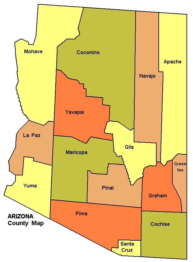 Arizona County Map, selfmage graphic by R.Blauert(dk4hb)